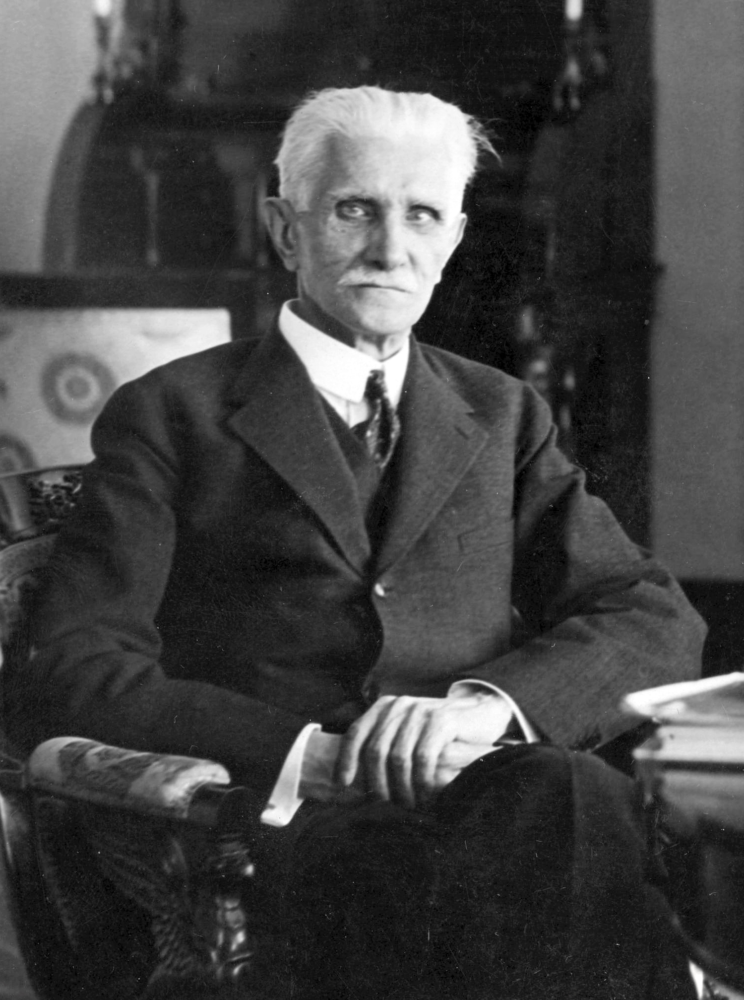 Ignacy Daszyński (1866-1937) as a Polish Sejm's speaker.